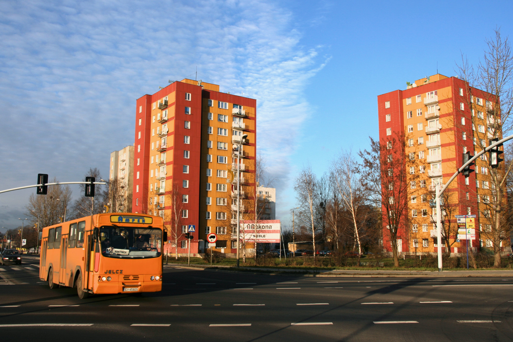 Osada Jana district of Tarnowskie Góry, Poland. Crossing of national road 11 with national road 78. Jelcz M11 bus (#004) no 158 operated by Ampex. Year built bus 1989, Ampex Bytom operator.